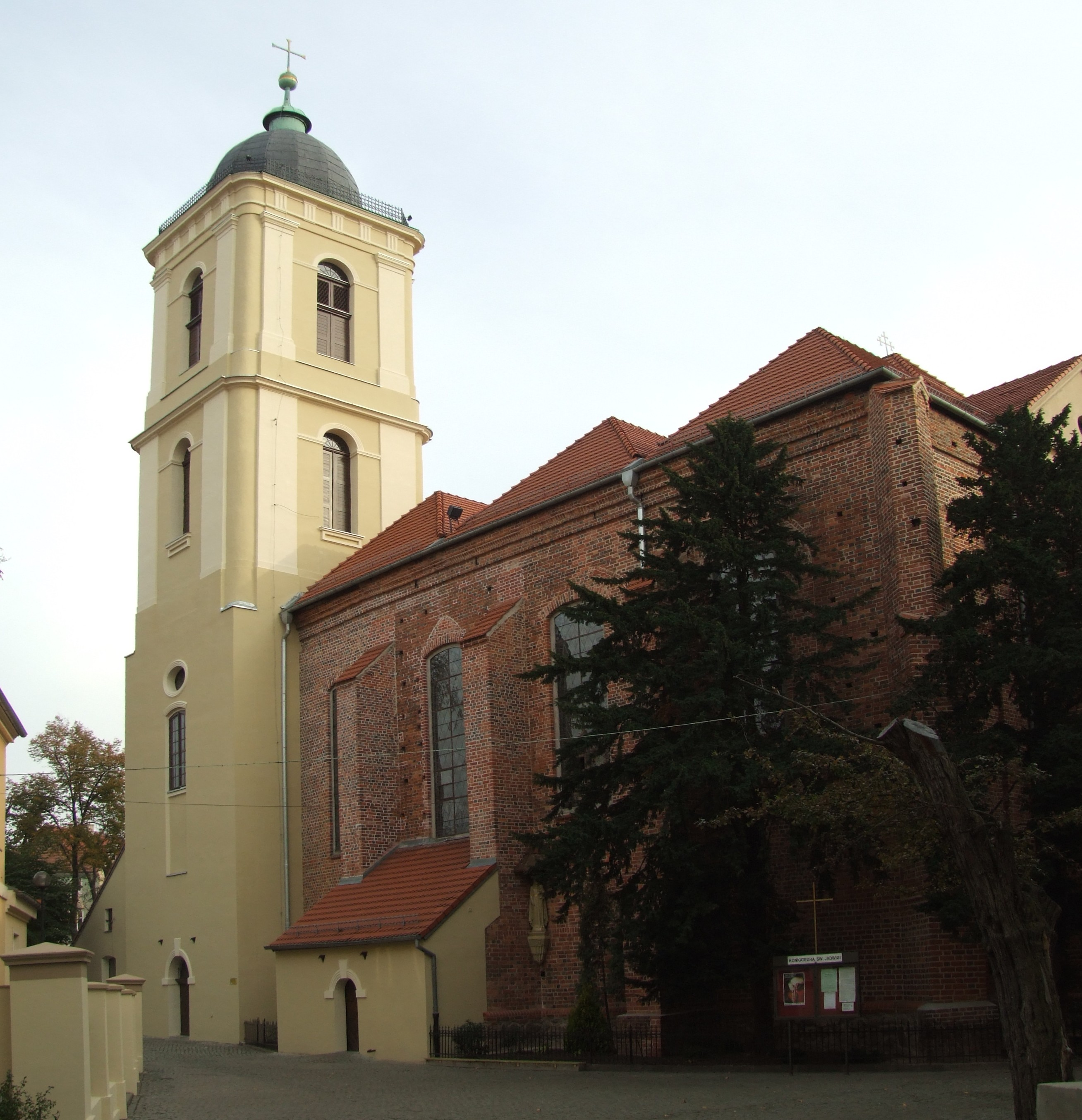 Konkatedra św. Jadwigi / Saint's Jadwiga Concathedral. Zielona Góra Author: Mohylek 09:31, 30 October 2006 (UTC)